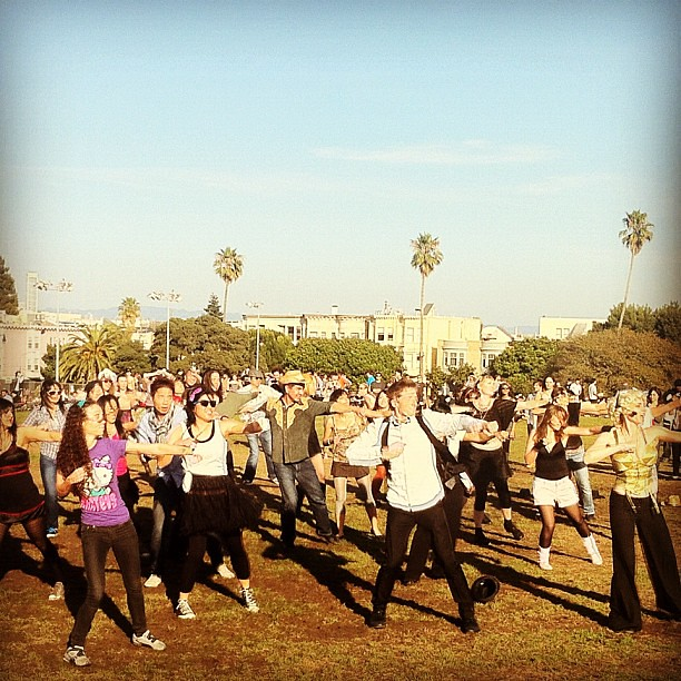 at Mission Dolores Park